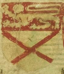 Coat of arms of "Le conte de Carryk" as it appears in the fourteenth-century Balliol Roll.